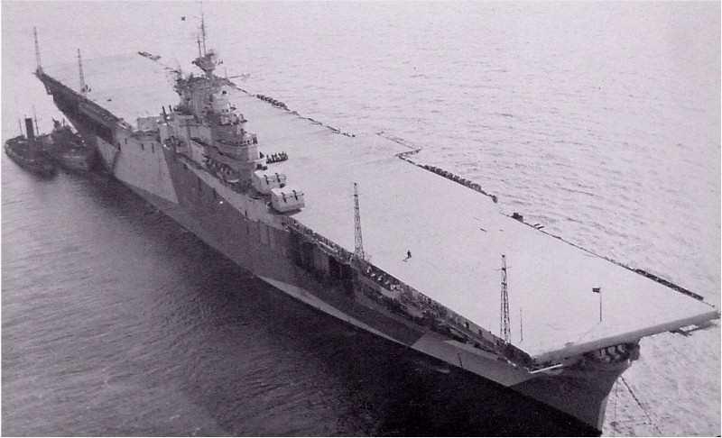 The U.S. Navy aircraft carrier USS Bennington (CV-20) painted in Camouflage Measure 32, Design 17A (No. 2), 13 December 1944, at the Brooklyn Navy Yard before going into combat. The new camouflage Design 17A (2) used three colours, the previous scheme Design 17A (1) used six colours.